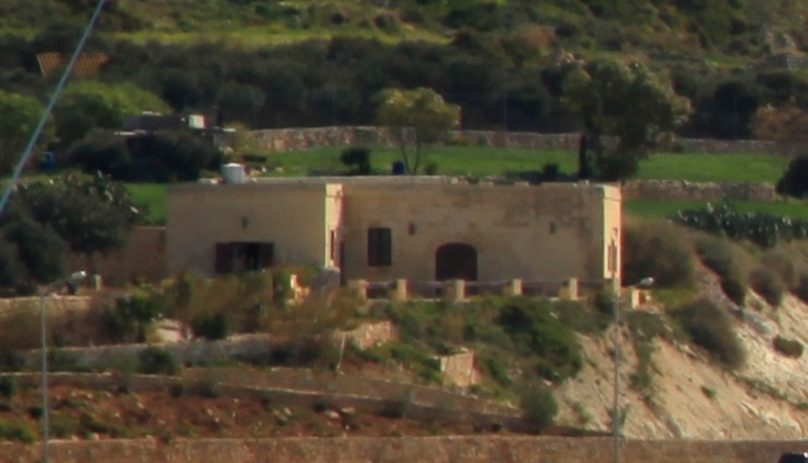 Blockhouse of Wilġa Battery, Marsaxlokk, Malta (intended as a temporary image until better image is uploaded)